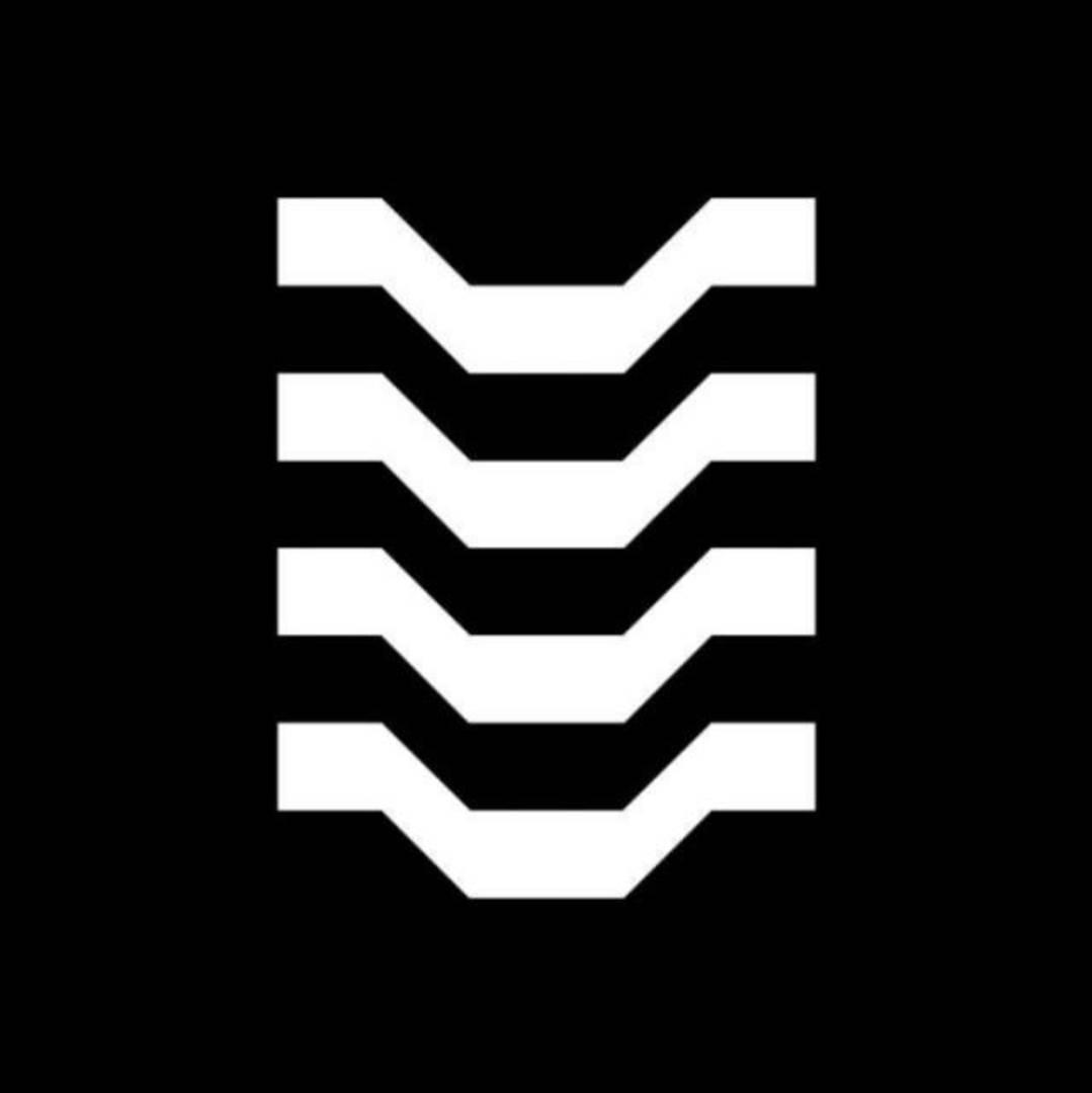 Logo of Invento was inspired by the architectural beauty of the Main Building of the college. The semi spiral dual staircase which gives access to all department floors has a unique shape.